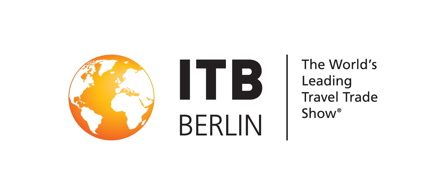 Logo ITB Berlin with english claim